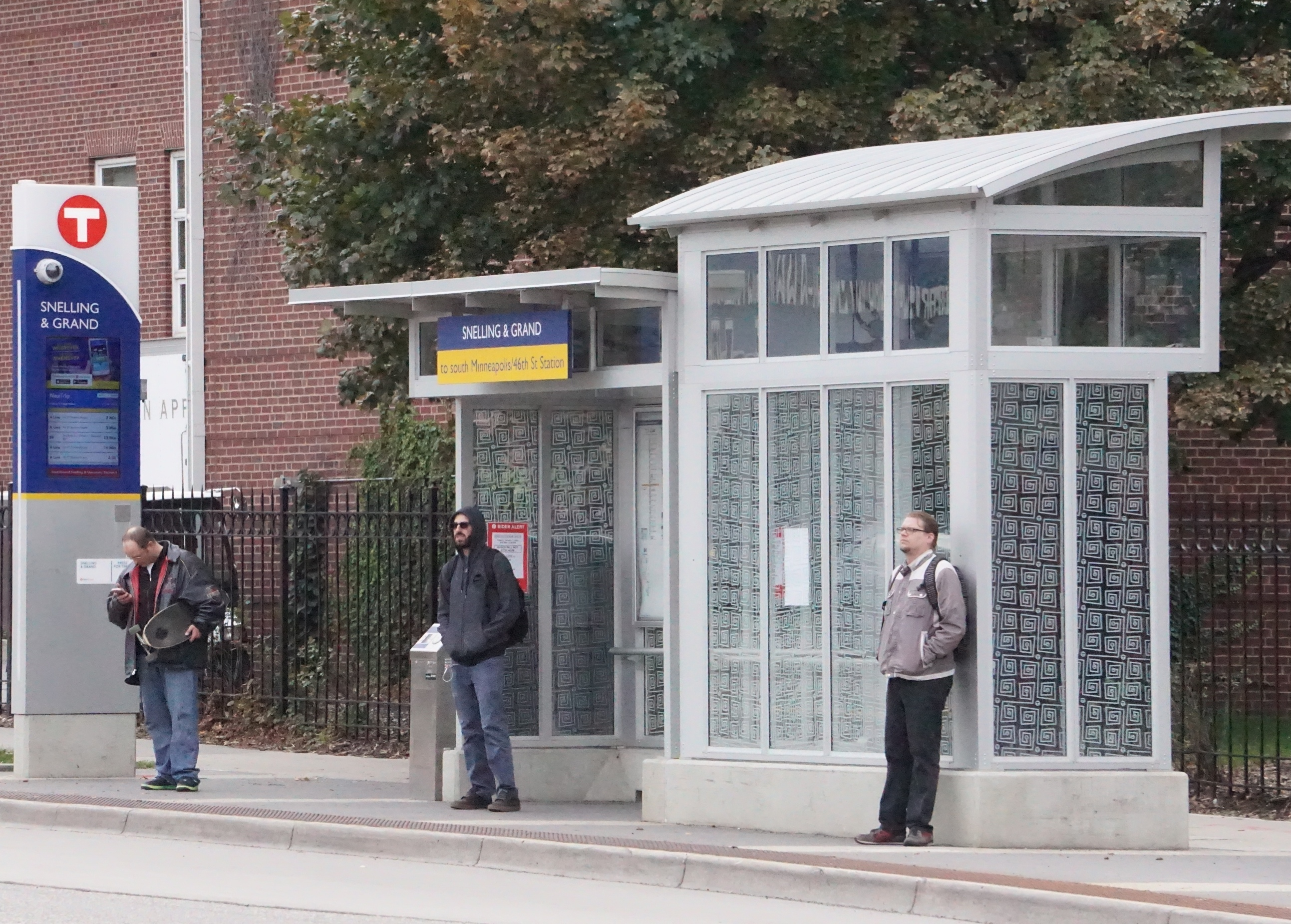 West side of Snelling Avenue, by Macalester College. The cross street is Grand Avenue (not visible in the photo)